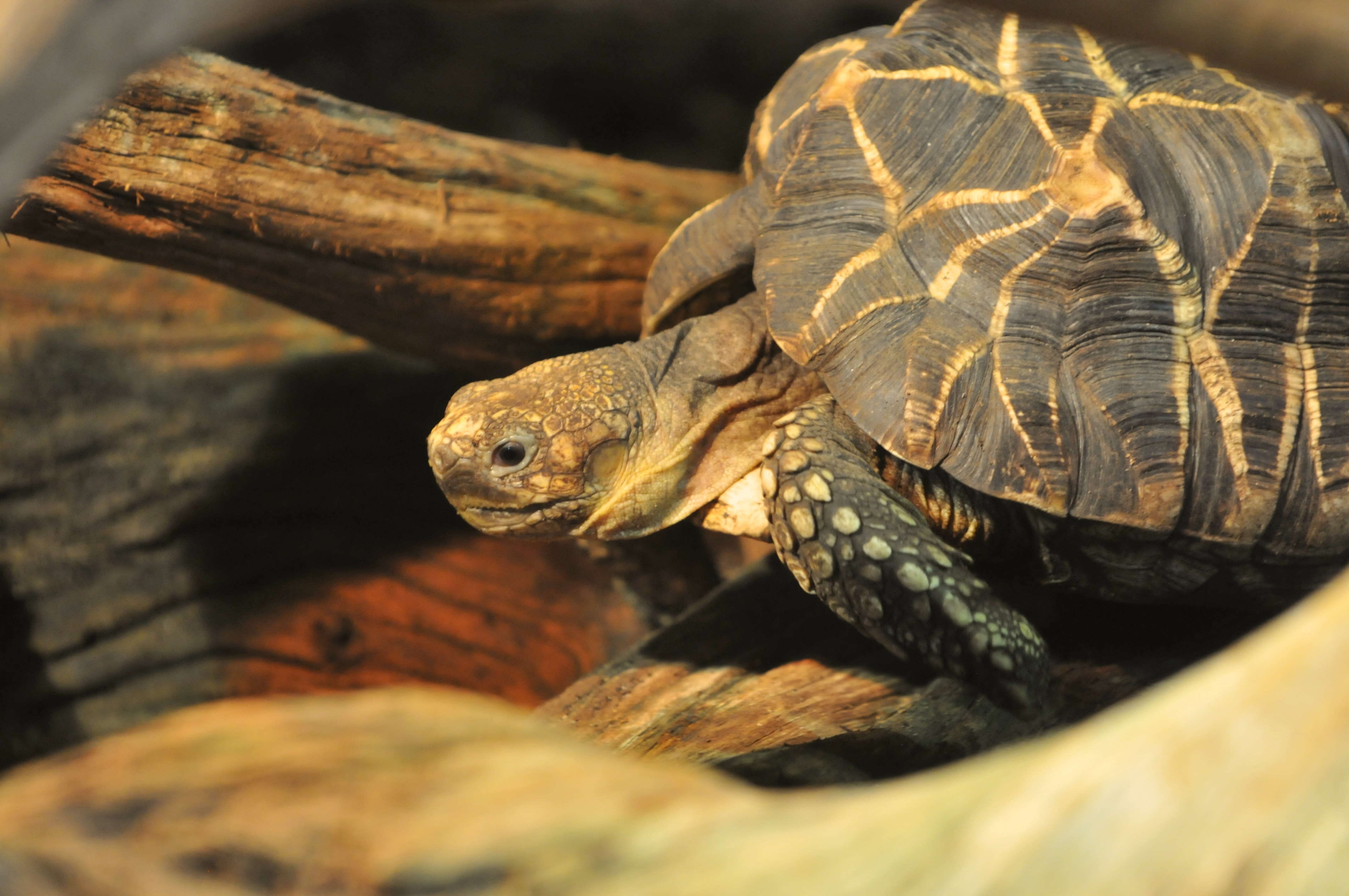 A Burmese Star Tortoise at Toronto Zoo, Ontario, Canada.